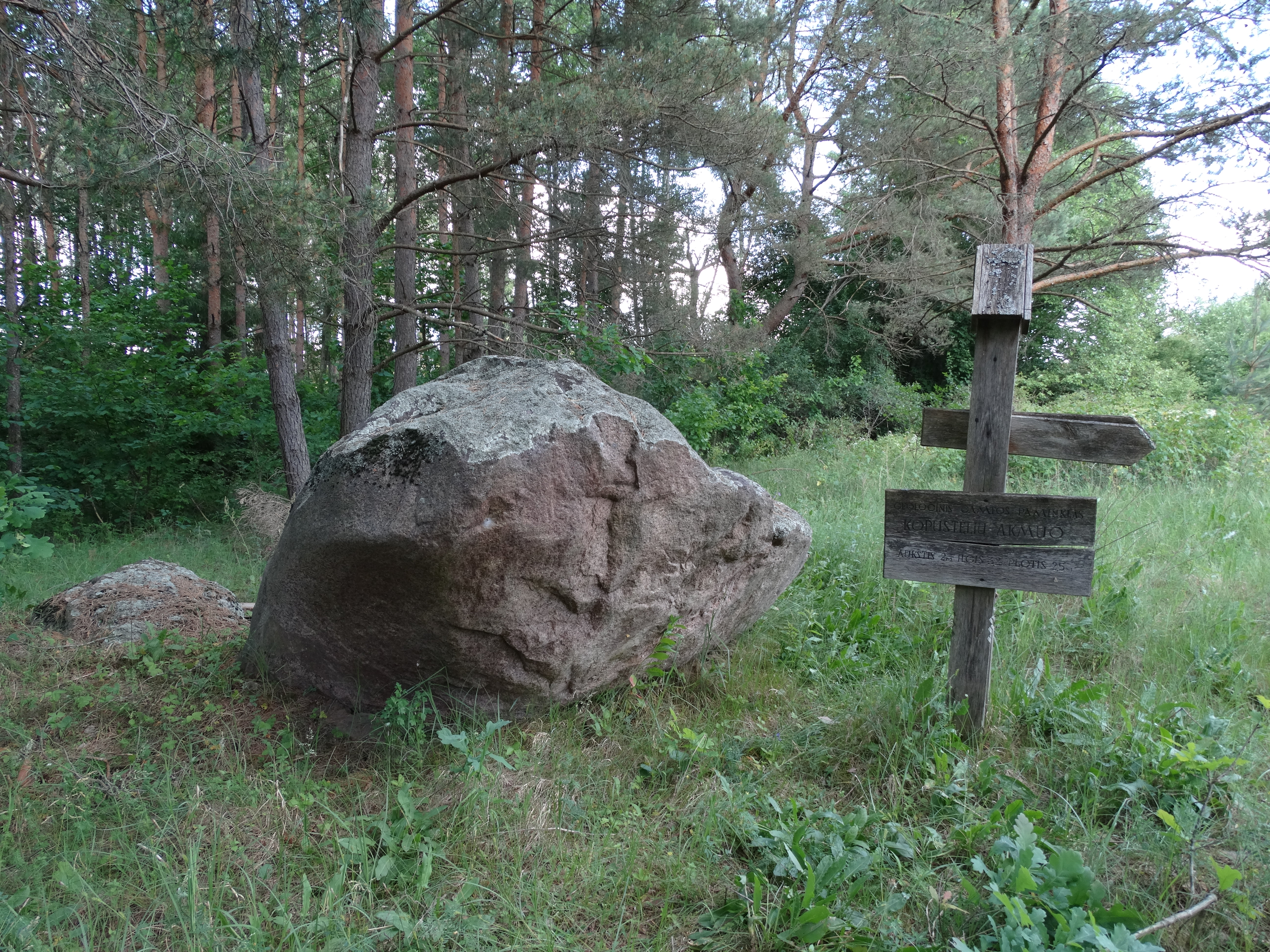 Boulder in Kopūstėliai, Ukmergė district, Lithuania